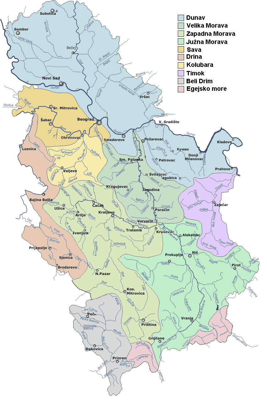 Detailed map of rivers and main drainage basins in Serbia Српски (ћирилица): Детаљна мапа река и главних водених басена у Србији